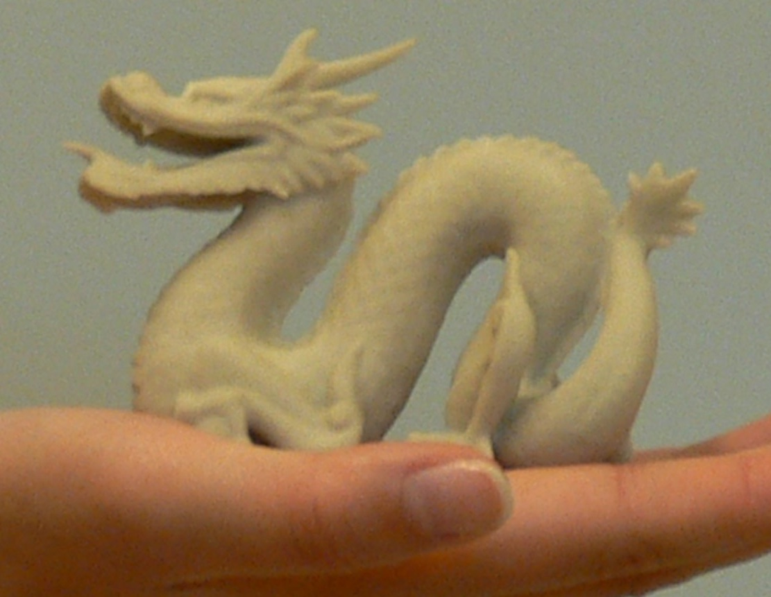 A real model of the Stanford dragon created with rapid prototyping. Note: This photo depicts a reproduction of the Stanford Dragon. The original work is under noncommercial license.